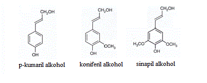 Figure 1. Structural formula of p-kumaril-, koniferil- and sinapil alcohol